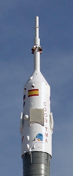 The Soyuz TMA-3 vehicle launches from the Baikonur Cosmodrome in Kazakhstan October 18, 2003, carrying astronaut C. Michael Foale, Expedition 8 mission commander and NASA ISS science officer; cosmonaut Alexander Y. Kaleri, Soyuz commander and flight engineer; and European Space Agency (ESA) astronaut Pedro Duque of Spain to the International Space Station (ISS). The trio will arrive at the ISS October 20, as Foale and Kaleri take over command of Station operations for the next 6 1/2 months. Duque will return to Earth October 28 with cosmonaut Yuri I. Malenchenko, Expedition 7 mission commander, and astronaut Edward T. Lu, NASA ISS science officer and flight engineer, in another Soyuz capsule already docked to the ISS. Kaleri and Malenchenko represent Rosaviakosmos.